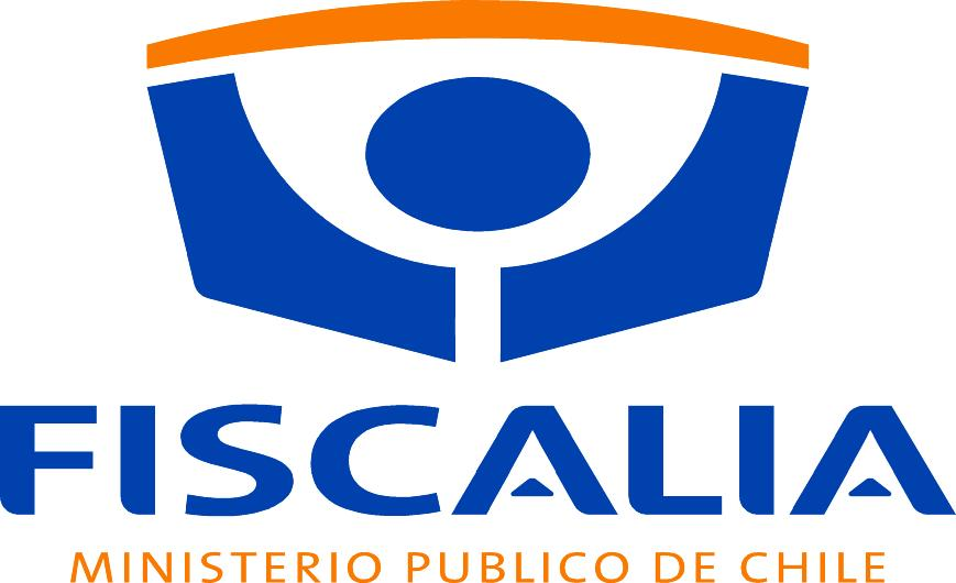 Institutional logo of the National Prosecuting Authority.